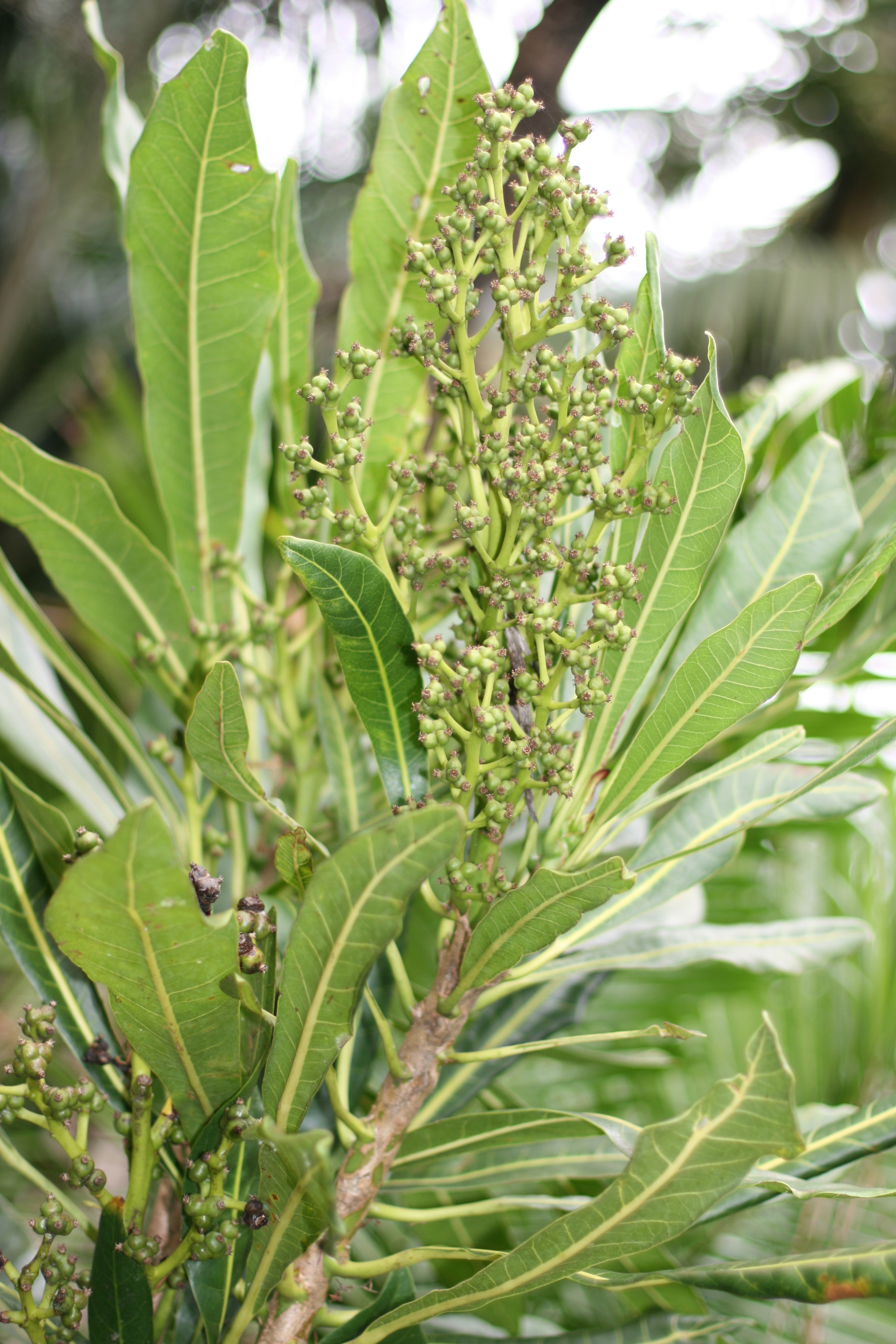 Fruiting panicle of Broad-leaved Meryta (Meryta latifolia), endemic to Norfolk Island, Australia. Specimen growing in cultivation at Manukau City, New Zealand